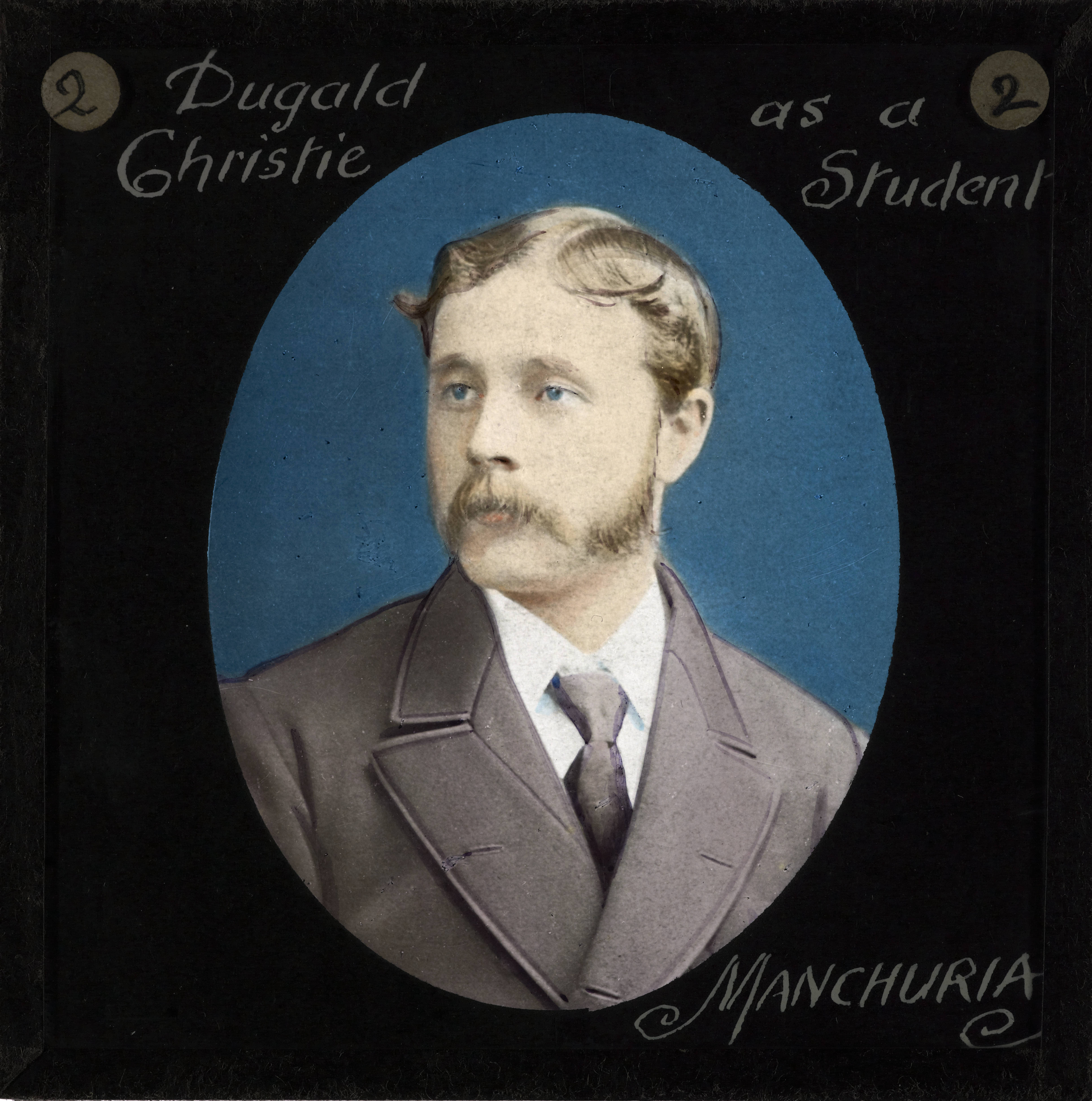 Dugald Christie as a Student, ca. 1880 Portrait photograph of the Scottish missionary Dugald Christie as a student.; This belongs to a series of Church of Scotland Foreign Missions Committee lantern slides relating to the Scottish missionary Dugald Christie. Dugald Christie was born in Glencoe in Scotland and studied medicine under the auspices of the Edinburgh Medical Missionary Society. In 1882, along with his first wife, Elizabeth, he went to Manchuria to work as a medical missionary of the United Presbyterian Church of Scotland. He worked initially in Newchang and later moved to the capital of Mukden where he opened Manchuriaas first hospital in 1884. In 1912 he established Mukden Medical College. Dugald Christie retired in 1923 and died in Edinburgh in 1936. Photographer: Unknown Subject (personal name): Christie, Dugald, 1855-1936 Filename: imp-cswc-GB-237-CSWC47-LS8-002.tif Coverage date: 1882/1936 Part of collection: International Mission Photography Archive, ca.1860-ca.1960 Type: images Part of subcollection: Photographs from the Centre for the Study of World Christianity, University of Edinburgh, U.K., ca.1900-ca.1940s Repository name: Centre for the Study of World Christianity Archival file: impaunpub_Volume7/1668.url Repository address: The University of Edinburgh School of Divinity, New College, Mound Place, Edinburgh EH1 2LX, United Kingdom Geographic subject (country): Scotland Format (aacr2): 1 lantern slide : 8 x 8 cm. Geographic subject (continent): Europe Rights: Contact the repository for details. Part of series: Dugald Christie LS8 Repository Date created: 1882/1936 Publisher (of the digital version): University of Southern California. Libraries Subject (aat genre): portraits Format (aat): lantern slides Legacy record ID: impa-m69095 Access conditions: File: GB 237 CSWC47/LS8/2